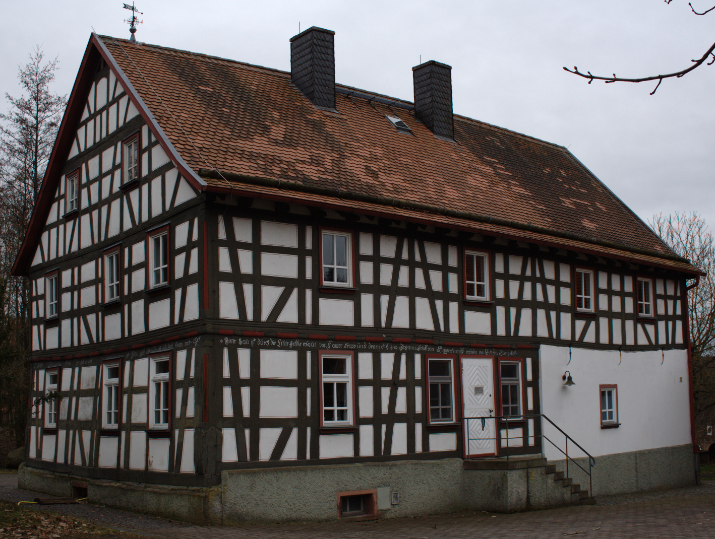 Half-timbered building in Ulrichstein, Petershainer Hof, Hesse, Germany